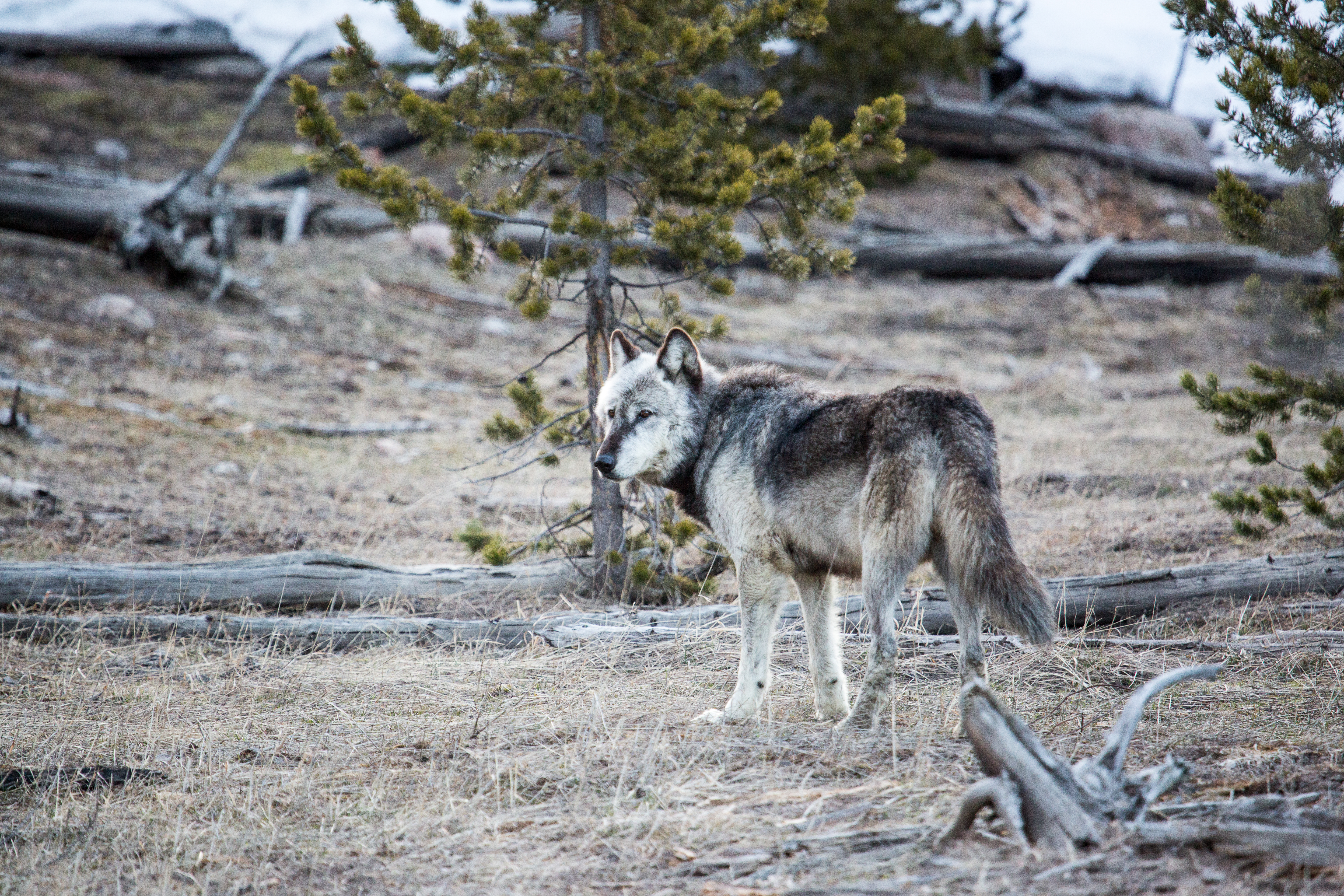 Alpha male of the Canyon pack; Neal Herbert; April 2016; Catalog #20593d; Original #ndh-yell-6596